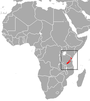 Uluguru Bushbaby (Paragalago orinus) range